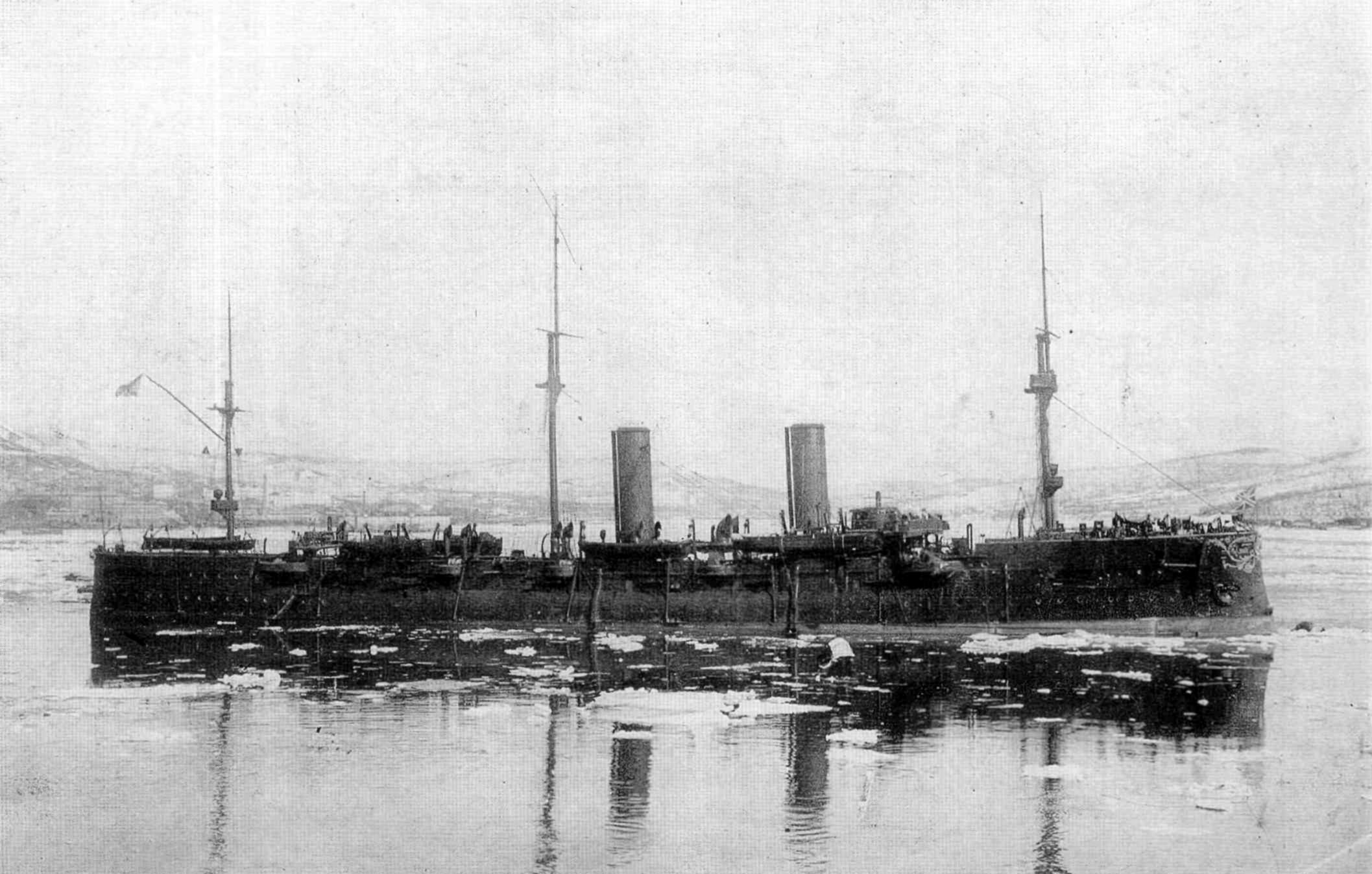 Imperial Russian cruiser Ryurik.